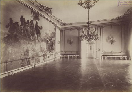 "Zenta" Room in the Royal Castle of Budapest.